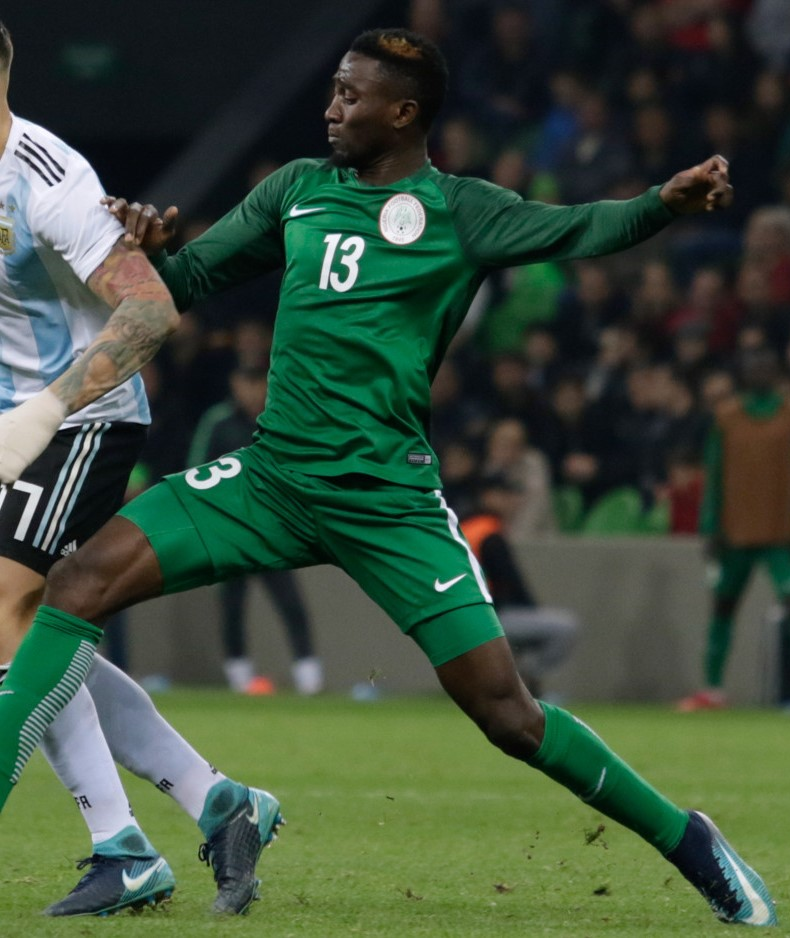 Wilfred Ndidi, Nicolás Otamendi